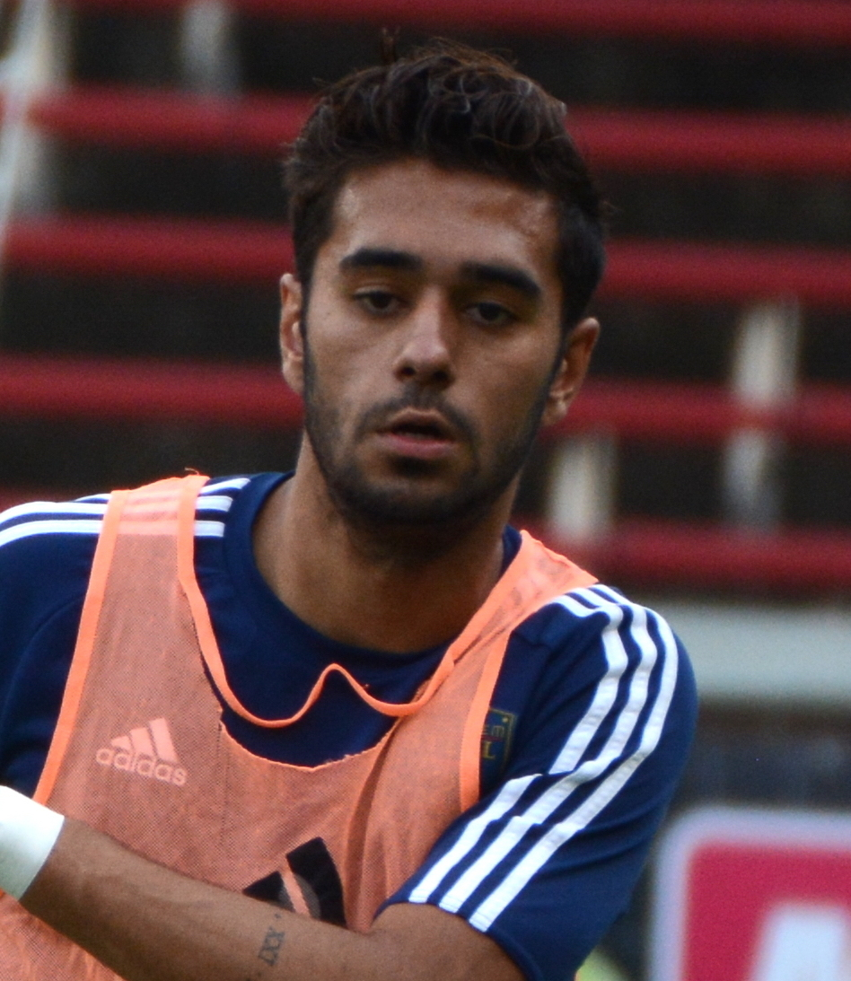 Seku Conneh, Matthew Real Taken during a match between FC Cincinnati and Bethlehem Steel FC at Nippert Stadium in Cincinnati, USA on May 20, 2017.